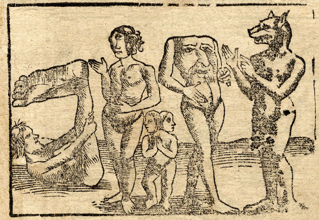 An engraving showing (from left to right) a monopod or sciapod, a female cyclops, conjoined twins, a blemmye, and a cynocephaly.